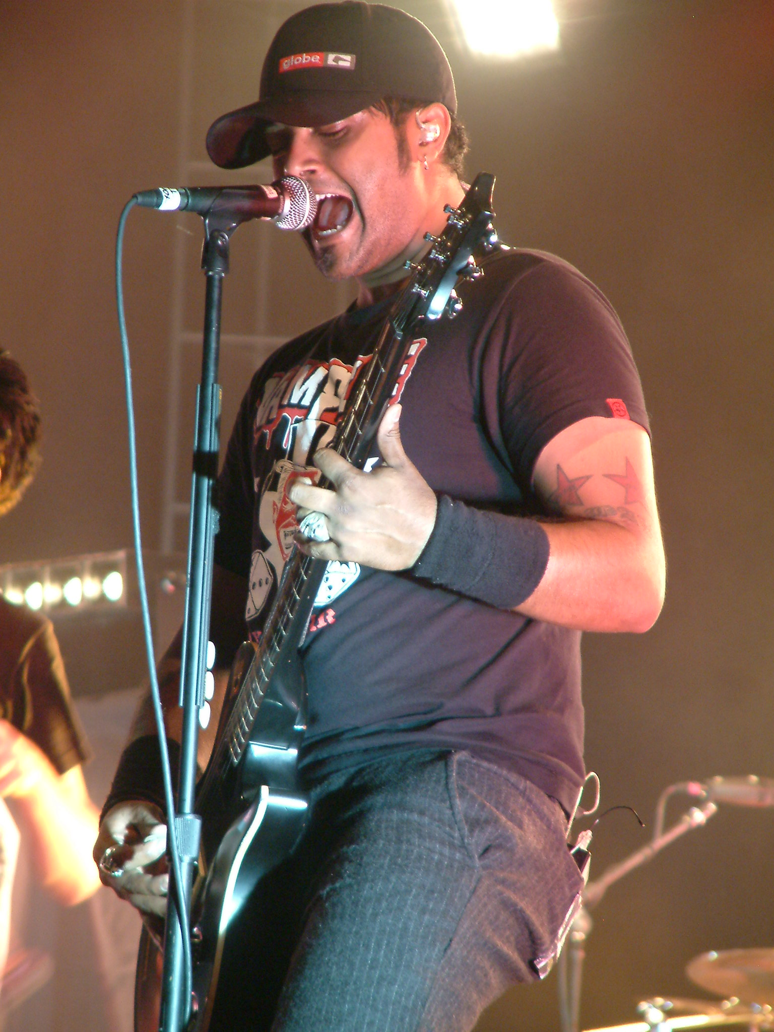 Sum 41 July 7'th 2003 Ottawa Bluesfest ottawa-bluesfest2003 "Sum 41"